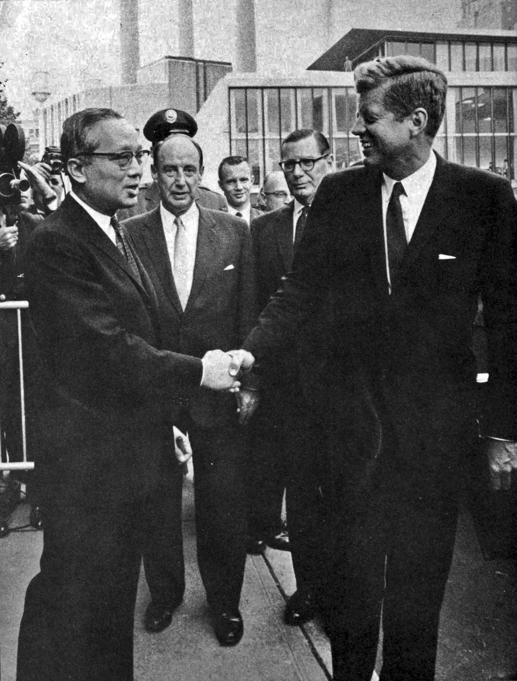 President Kennedy bidding farewell to U Thant after a visit to the UN Headquarters in 1961. Behind them is Ambassador Adlai E Stevenson.